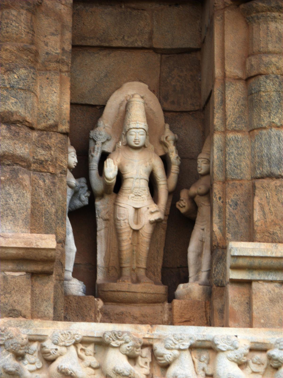 Vishnu